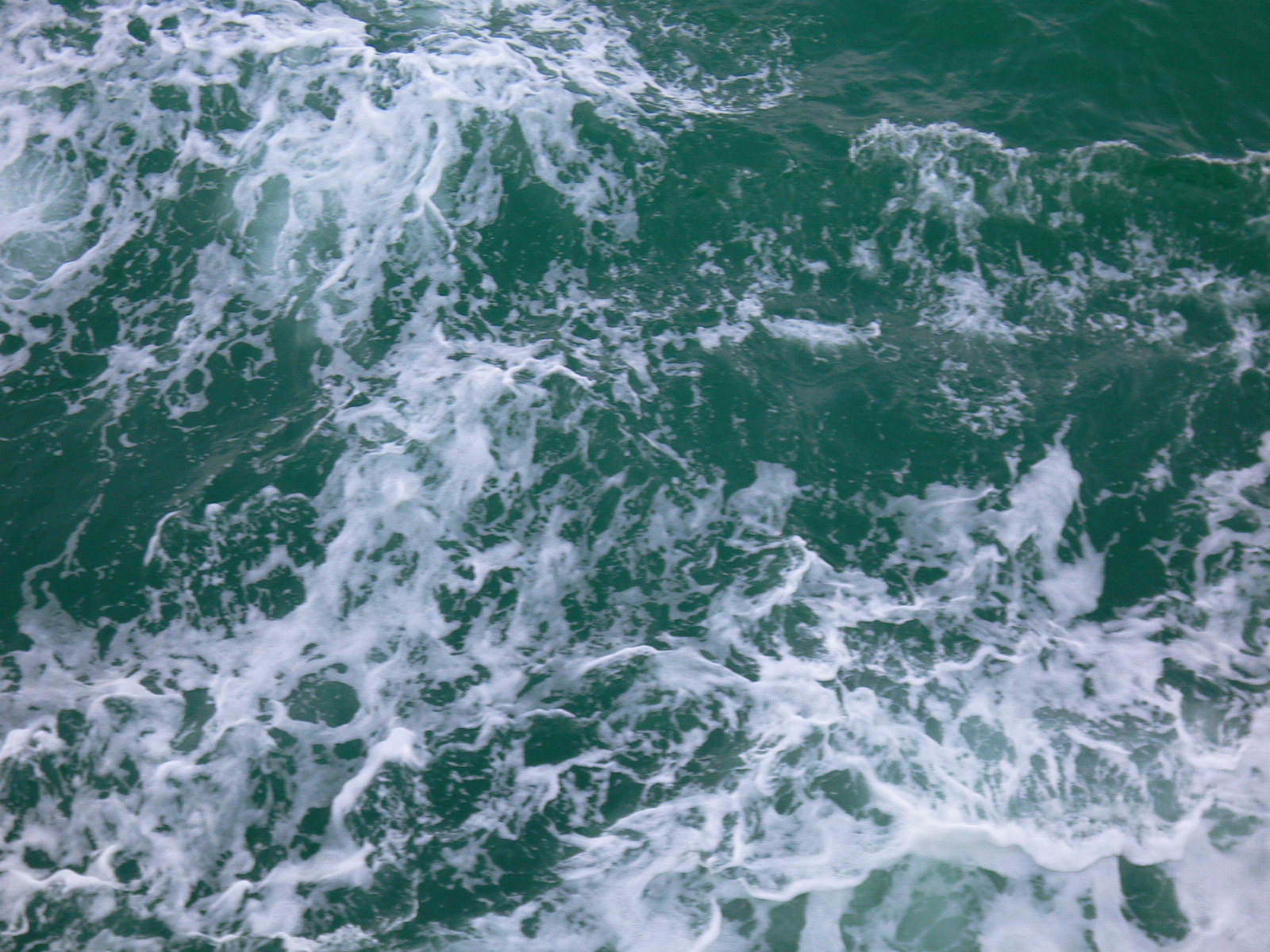 Seawater photographed from aboard the MV Virgo out of Singapore, 2006.